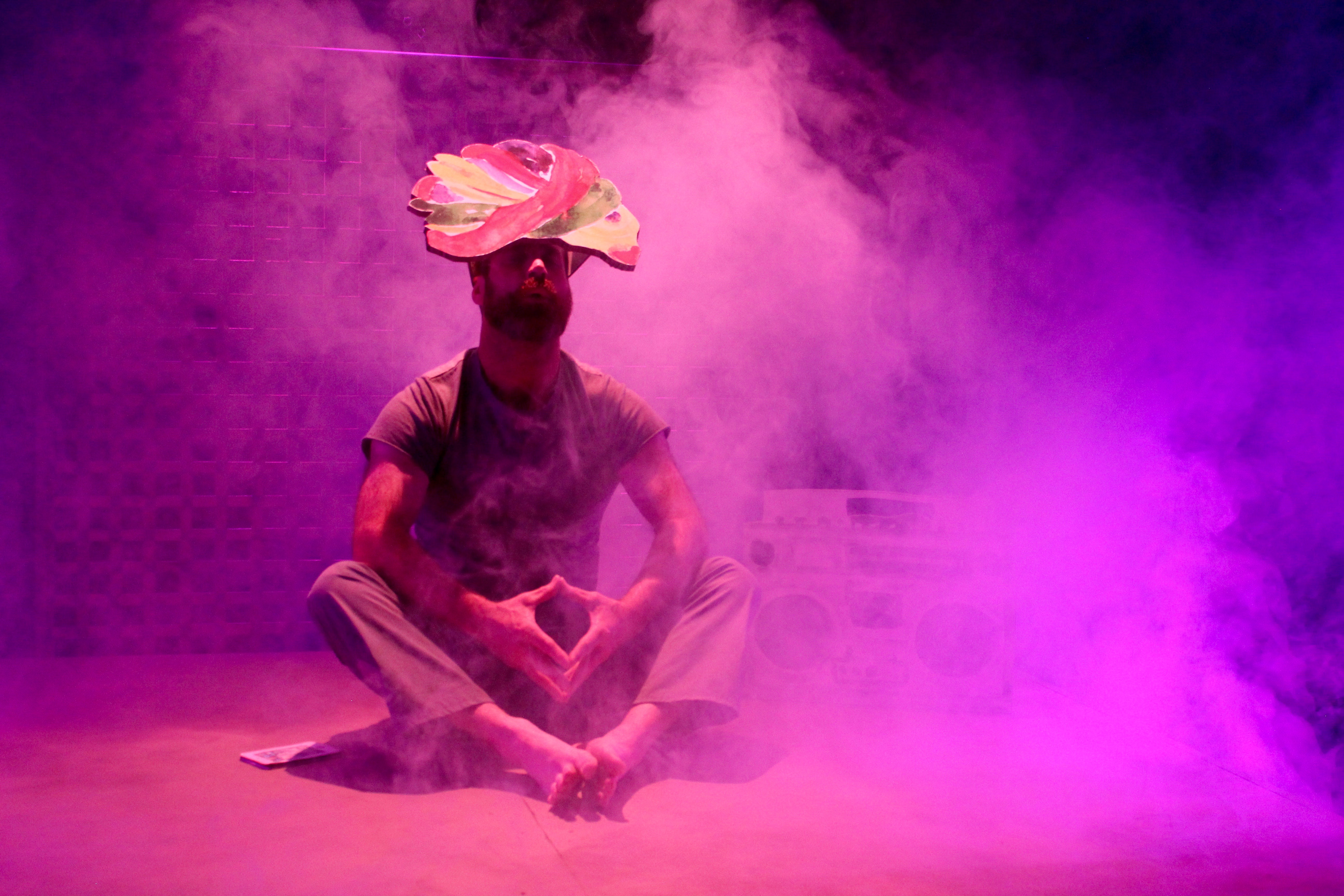 Jasper Sprout, played by Brendan Cooney, in the play Out of the Ordinary.